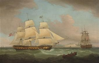 The East Indiaman True Briton in two positions and calling for a pilot off Dover; signed and dated 'T Whitcombe 1809' (on the stern of rowing boat, lower right); oil on canvas